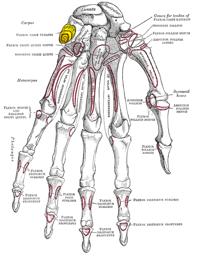 Bones of the left hand. Palmar surface.